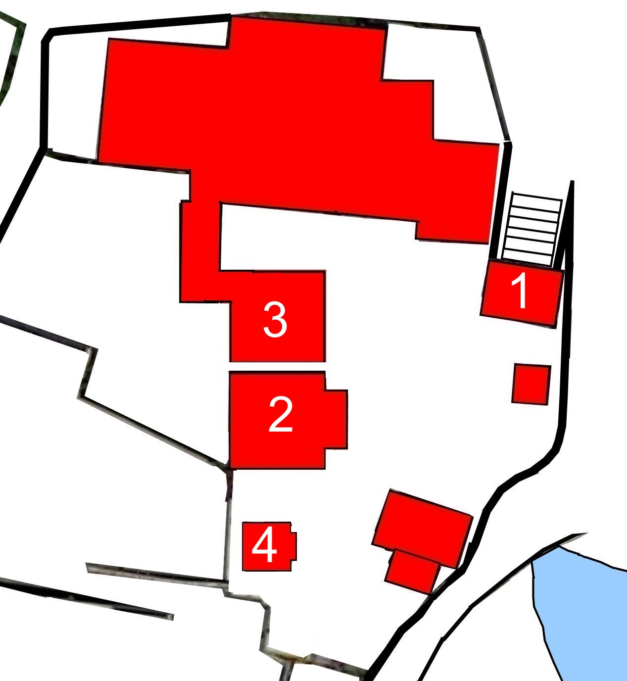 Layout of Shusshahu tempel, Tokushima